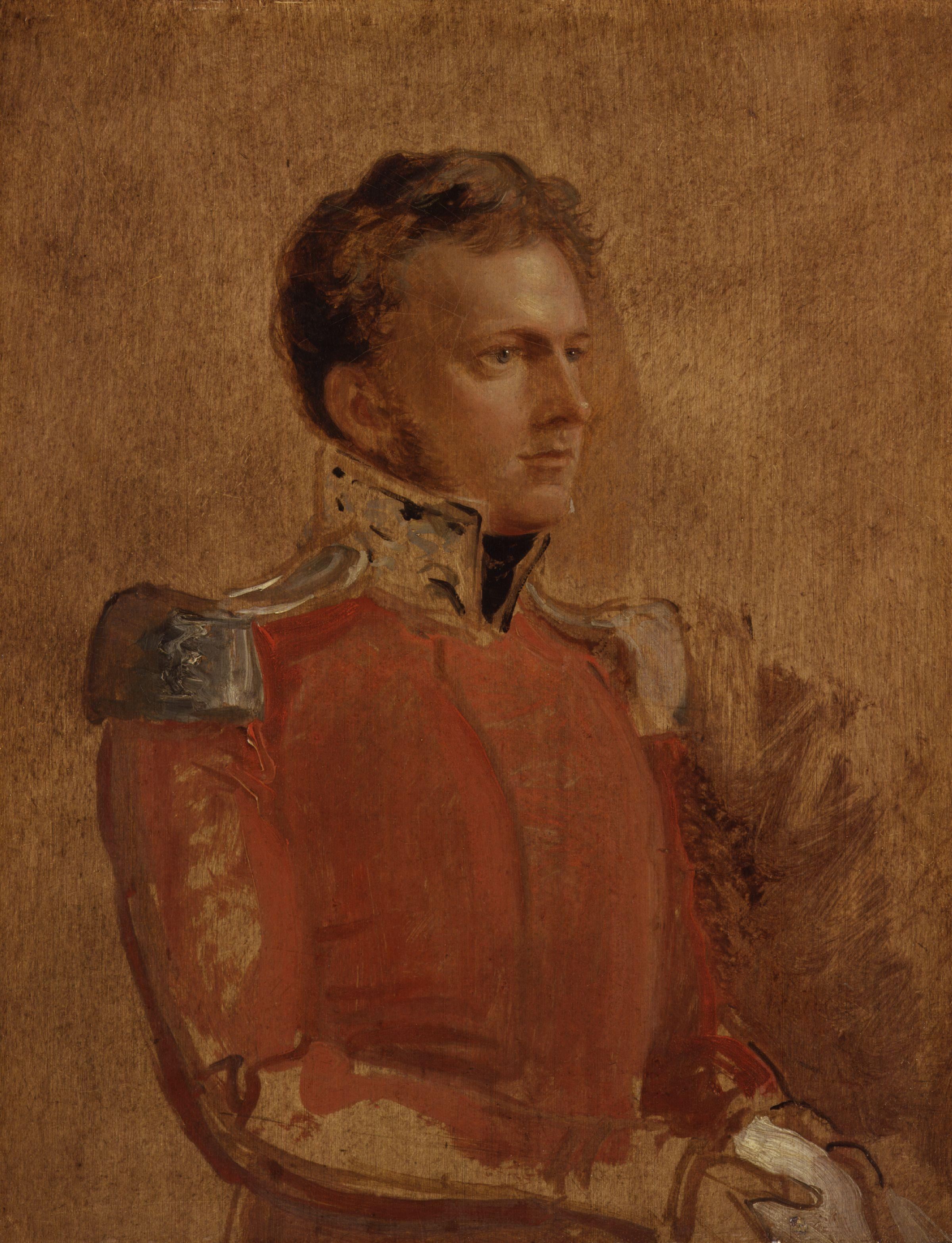 John Campbell, 2nd Marquess of Breadalbane, by Sir George Hayter (died 1871), given to the National Portrait Gallery, London in 1931. All images in this batch have been confirmed as author died before 1939 according to the official death date listed by the NPG.